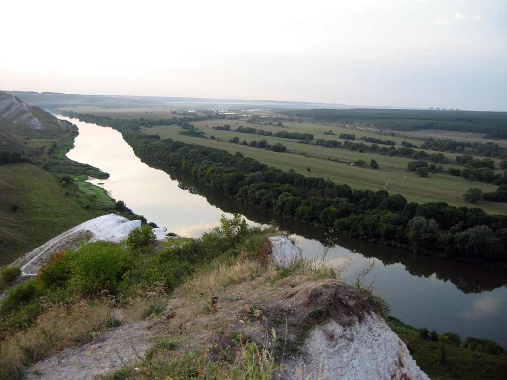 Don River in Voronezh Oblast, Russia